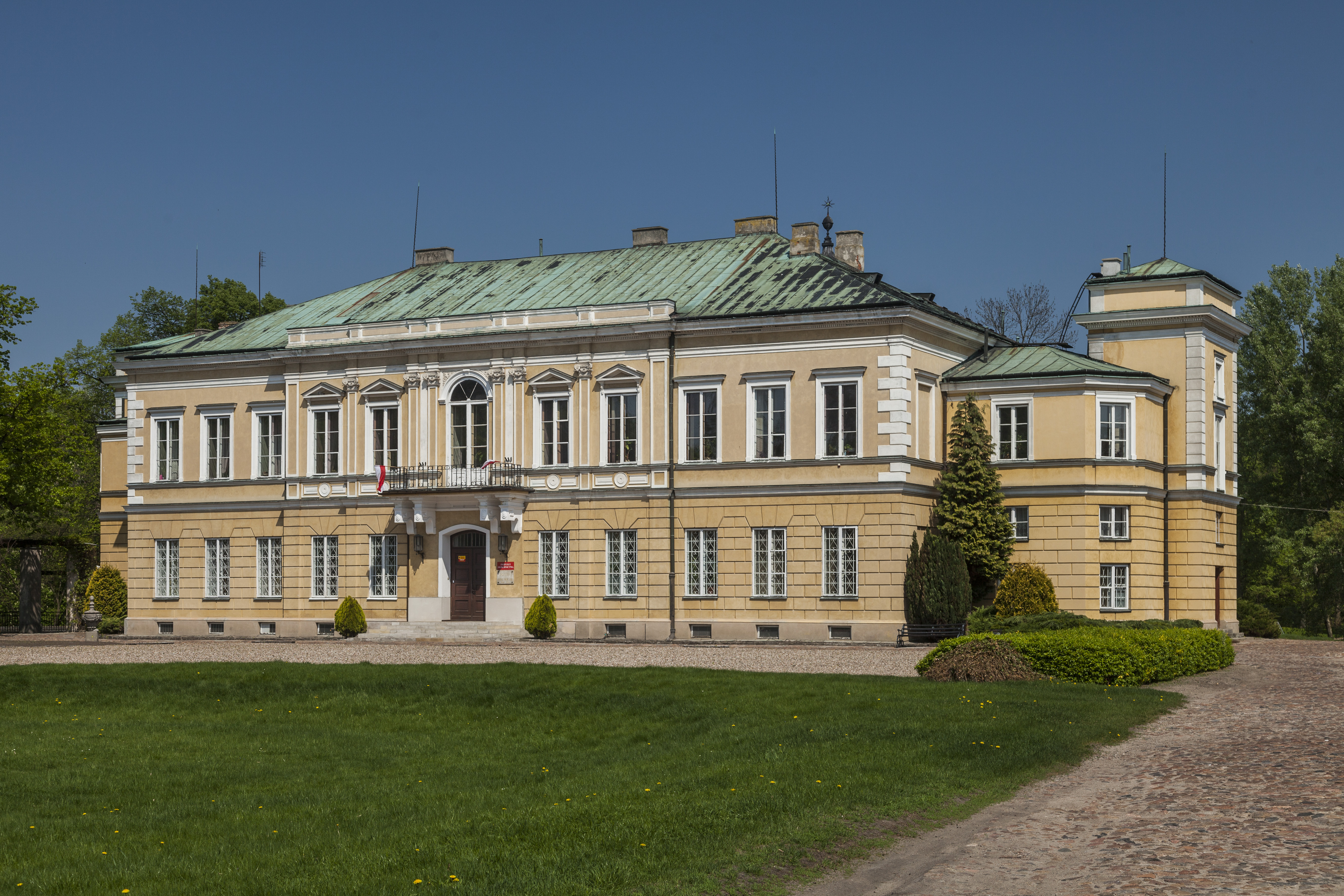 Former primate's palace in Skierniewice, Poland.